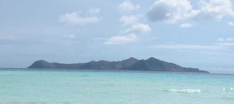 Manamoc island. Personal photograph, May 2004. Released in the Public Domain.